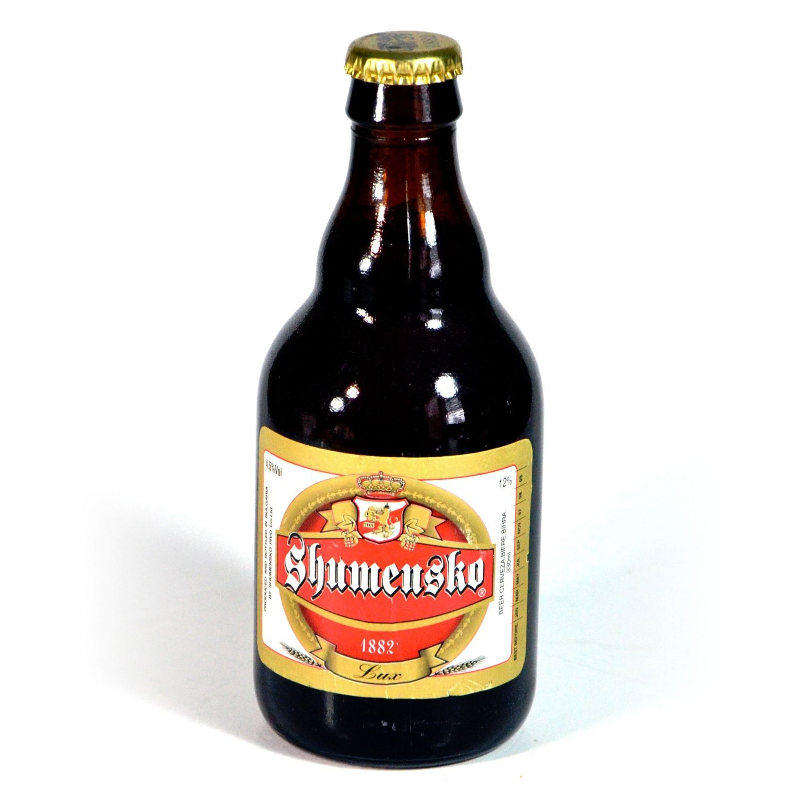 Shumensko light beer